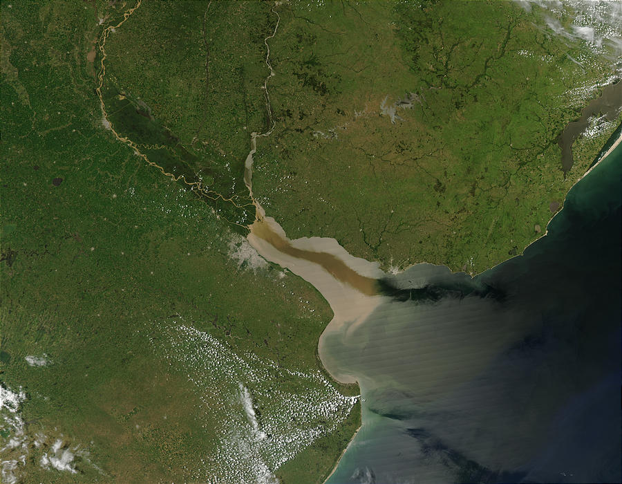 Satellite photo of the River Plate